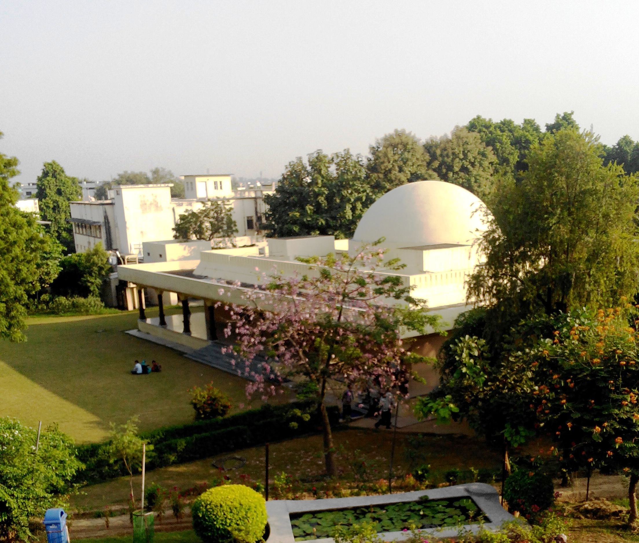 Jawahar Planetarium at Allahabad in January 2014